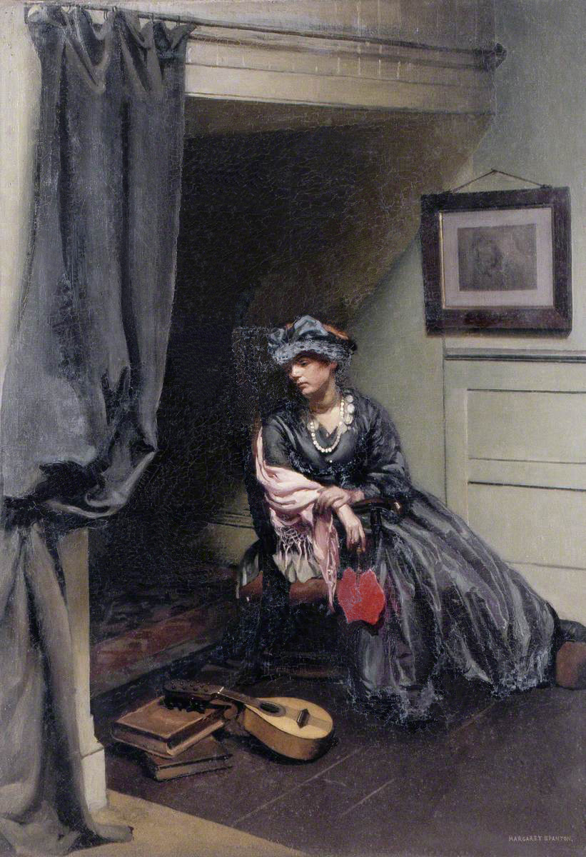 In an Alcove. 1902. Helen Margaret "Madge" Spanton. Oil Painting on Canvas.